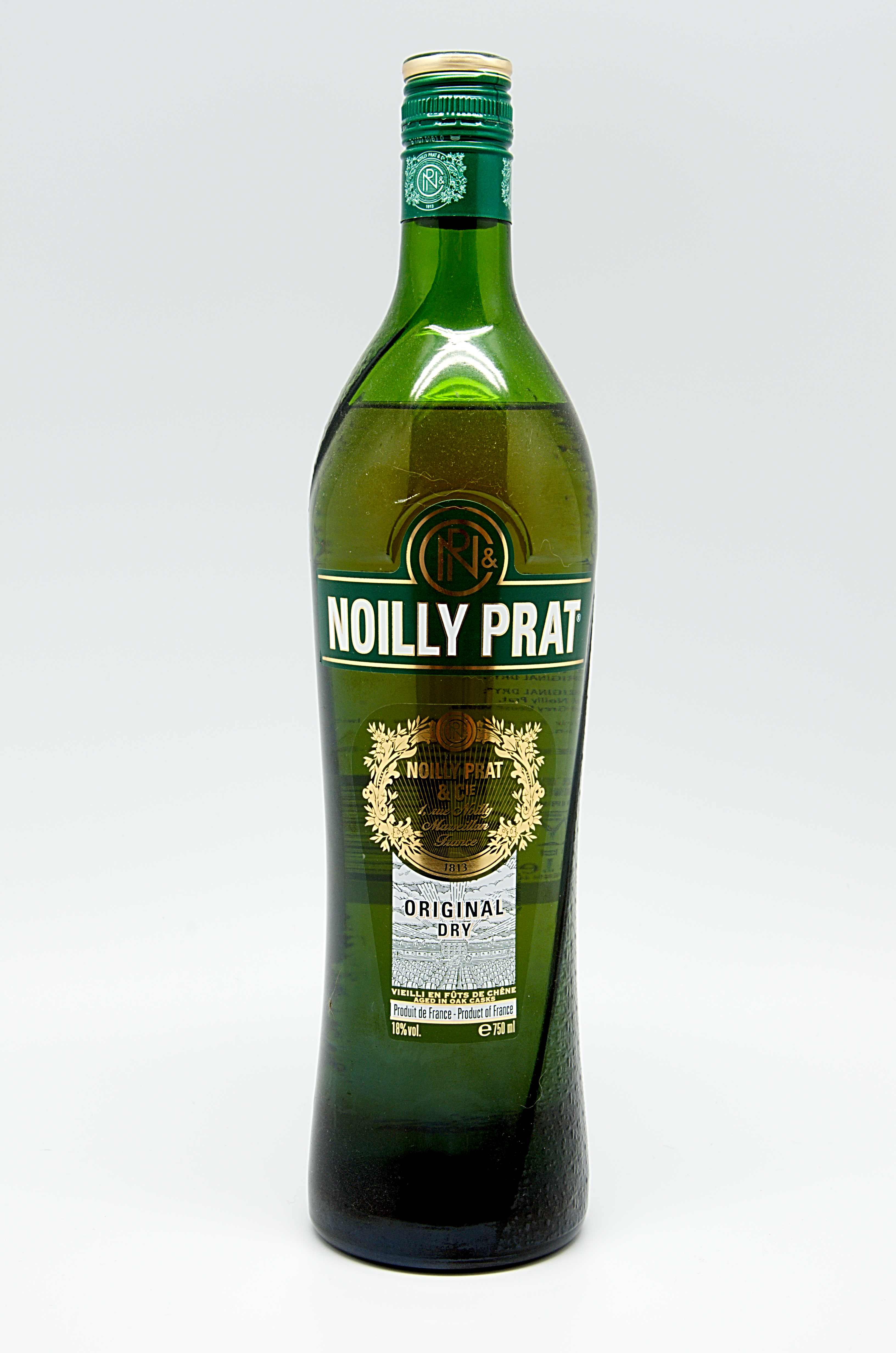 Noilly Prat bottle